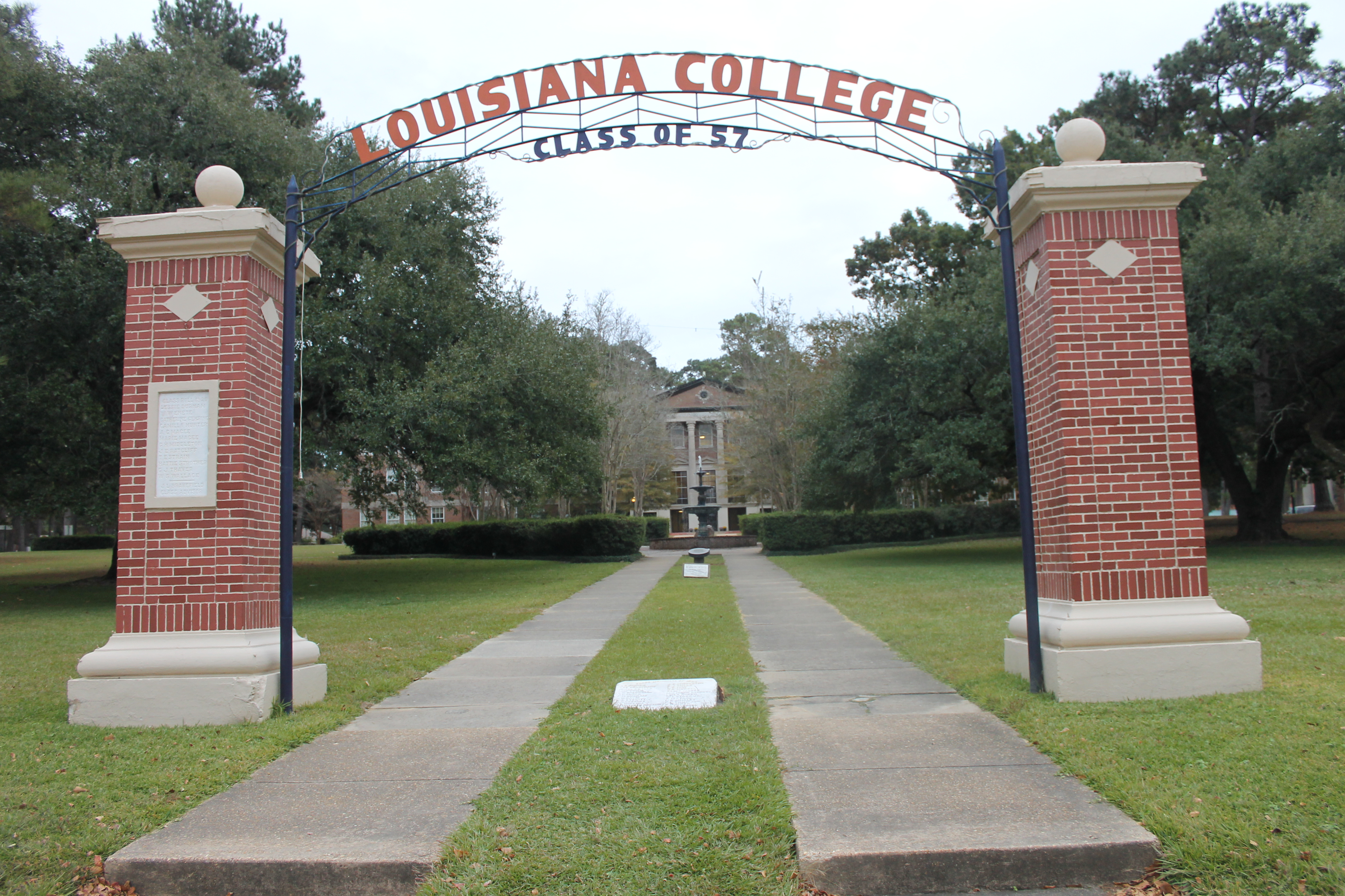 Entrance to Louisiana College, Pineville, LA